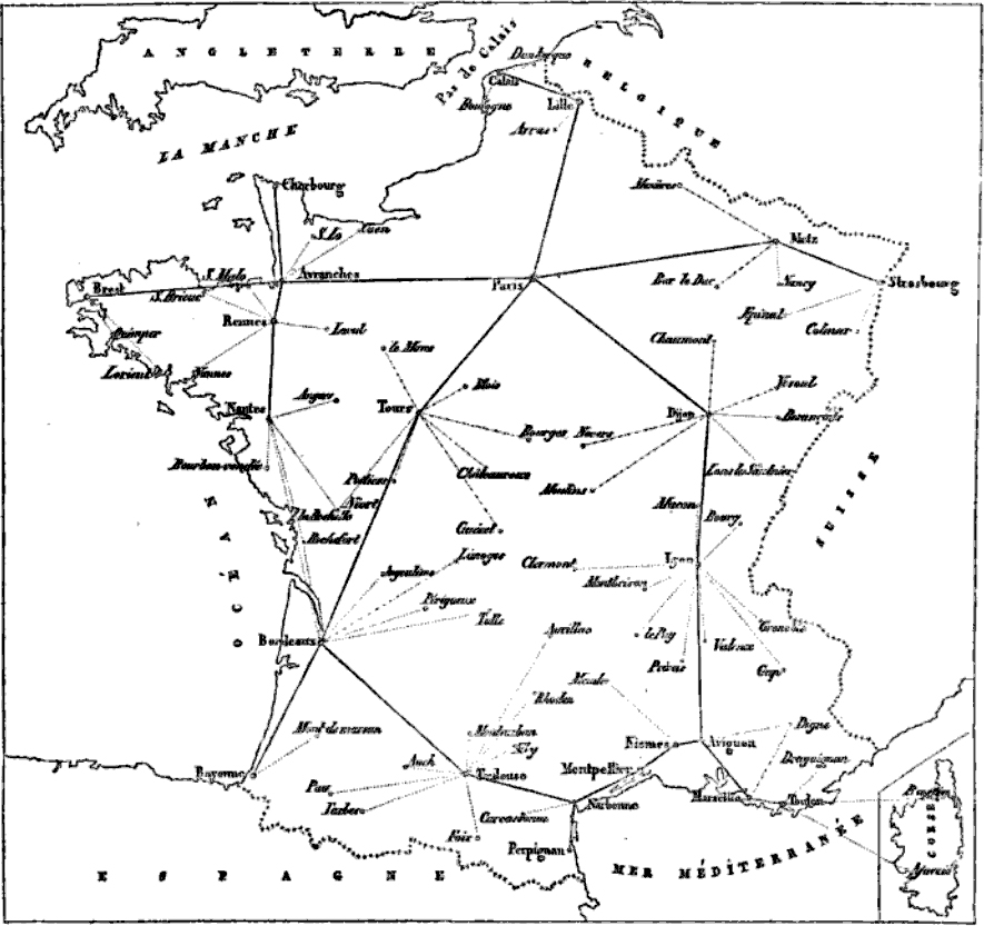 A Map of the Telegraph Lines of France